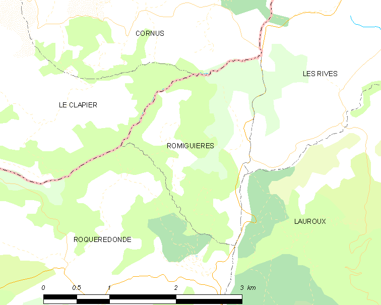 Map commune FR insee code 34231.png - Romiguières